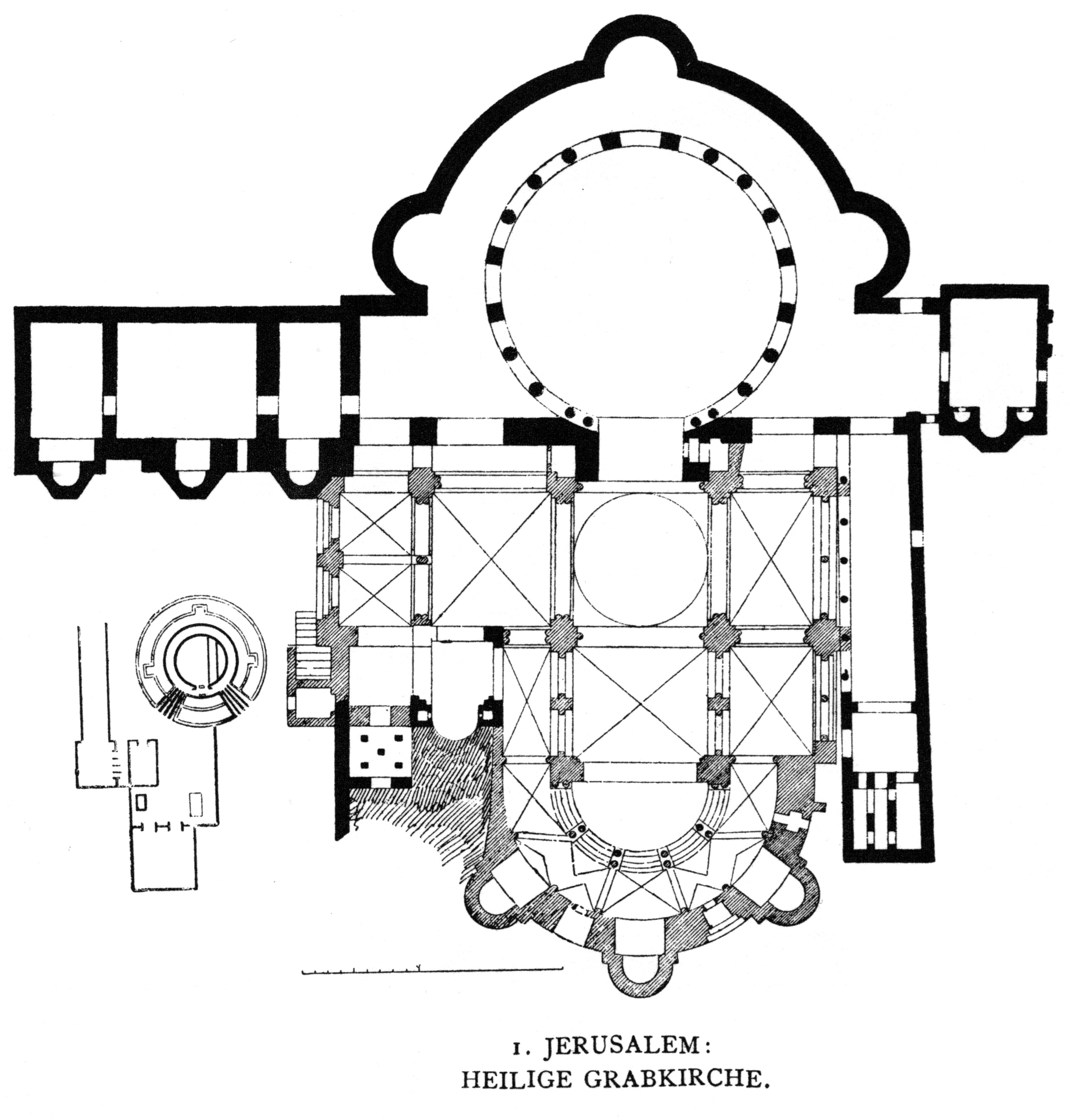 Church of the Holy Sepulchre, Jerusalem.